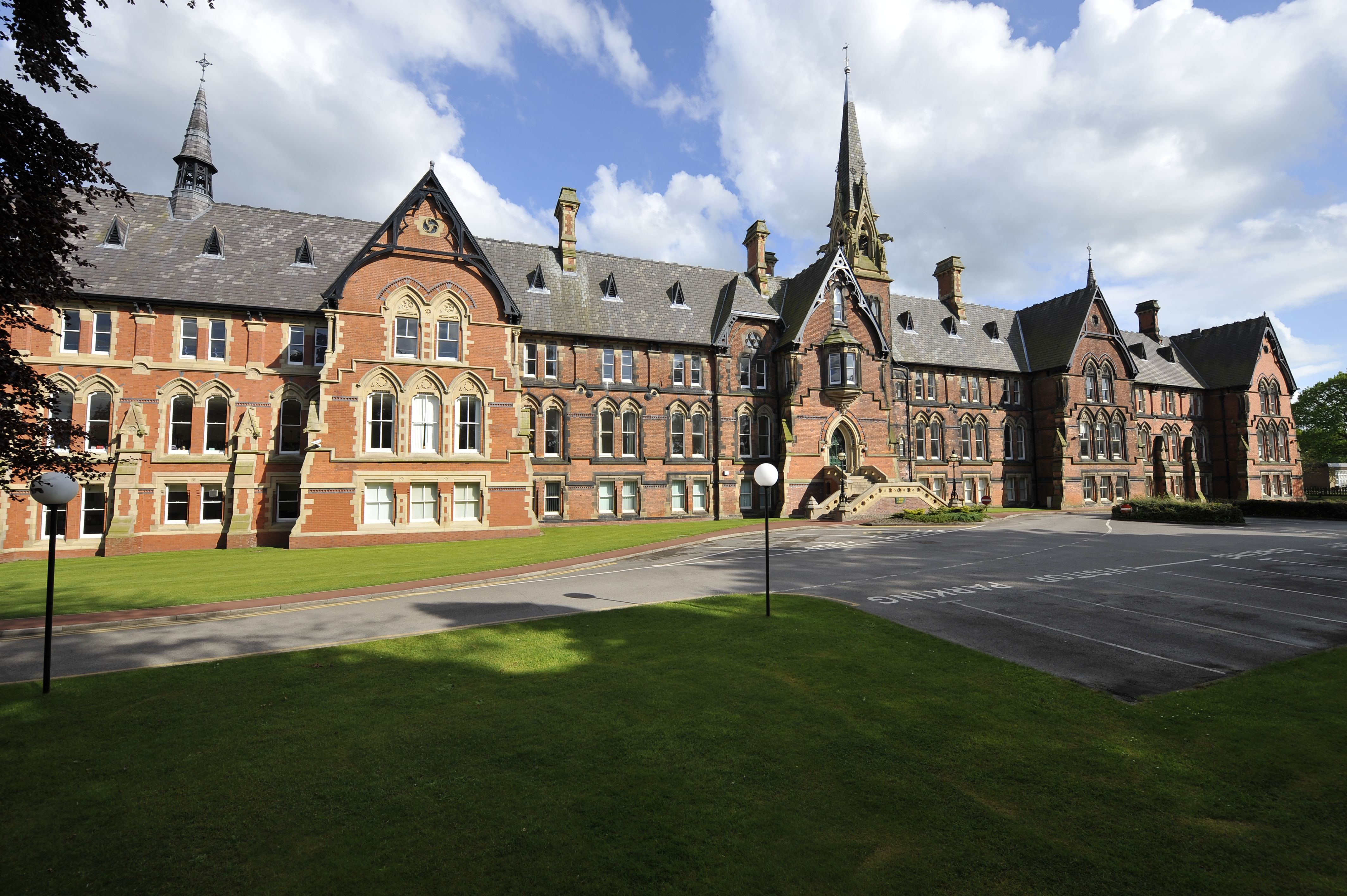 View of the front of the Main Building of Cheadle Hulme School.